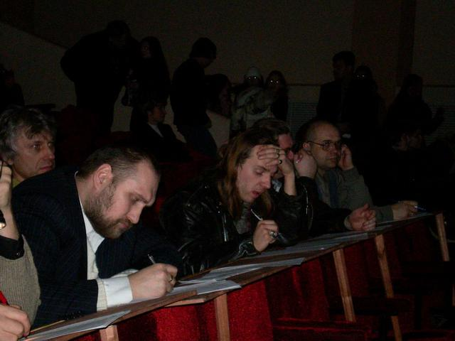 Жюри конкурса «Рок-Февраль», 2006 год